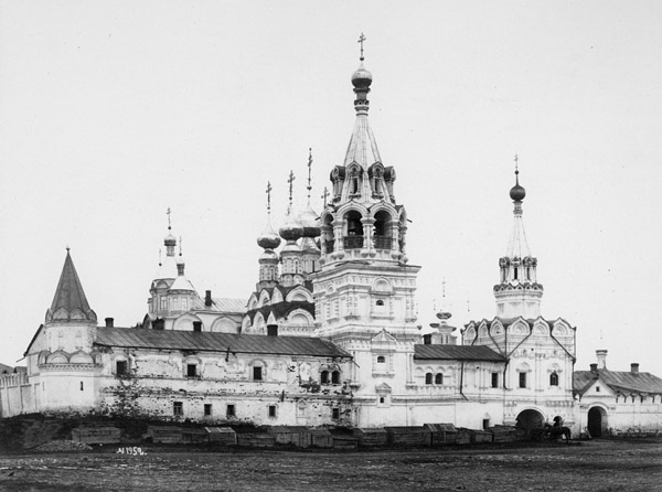 Trinity Convent, Murom.